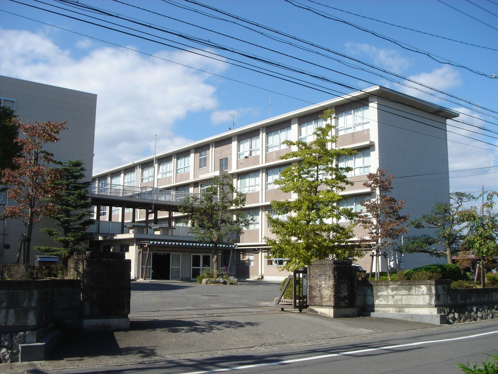 Ogaki Higashi Senior High School（岐阜県立大垣東高等学校）,Ogaki,Gifu,Japan(岐阜県大垣市)で撮影。